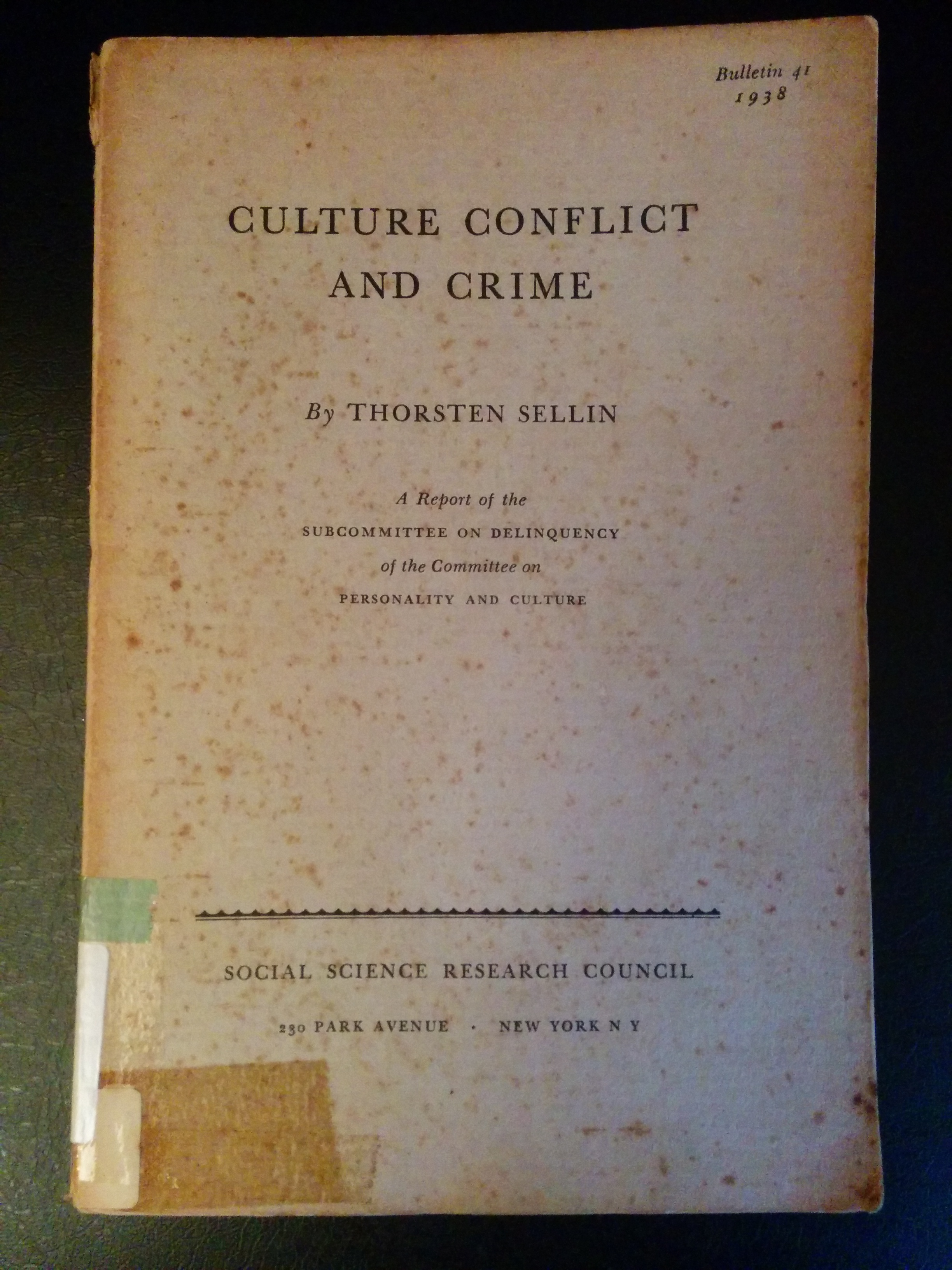 Photo of the 1938 book by Thorsten Sellin.